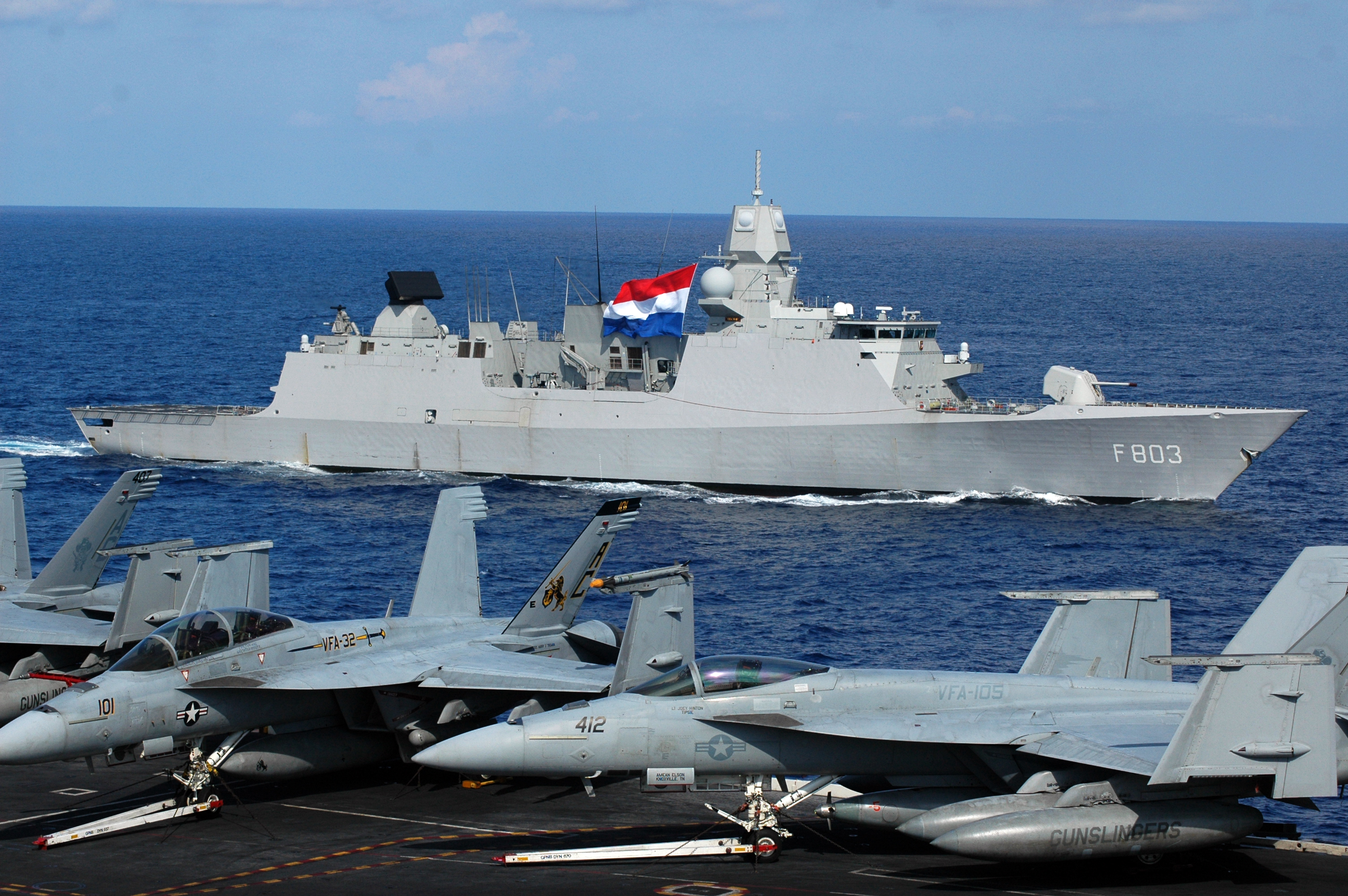 The Royal Netherlands Navy De Zeven Provincien-class frigate HNLMS Tromp (F-803) comes along side the U.S. aircraft carrier USS Harry S. Truman (CVN-75) in the Atlantic Ocean, 19 September 2009. Tromp joined ships from Italy, Canada, and Brazil in an integrated coalition operations exercise with the Harry S. Truman Carrier Battle Group in their final at-sea exercise prior to deployment.